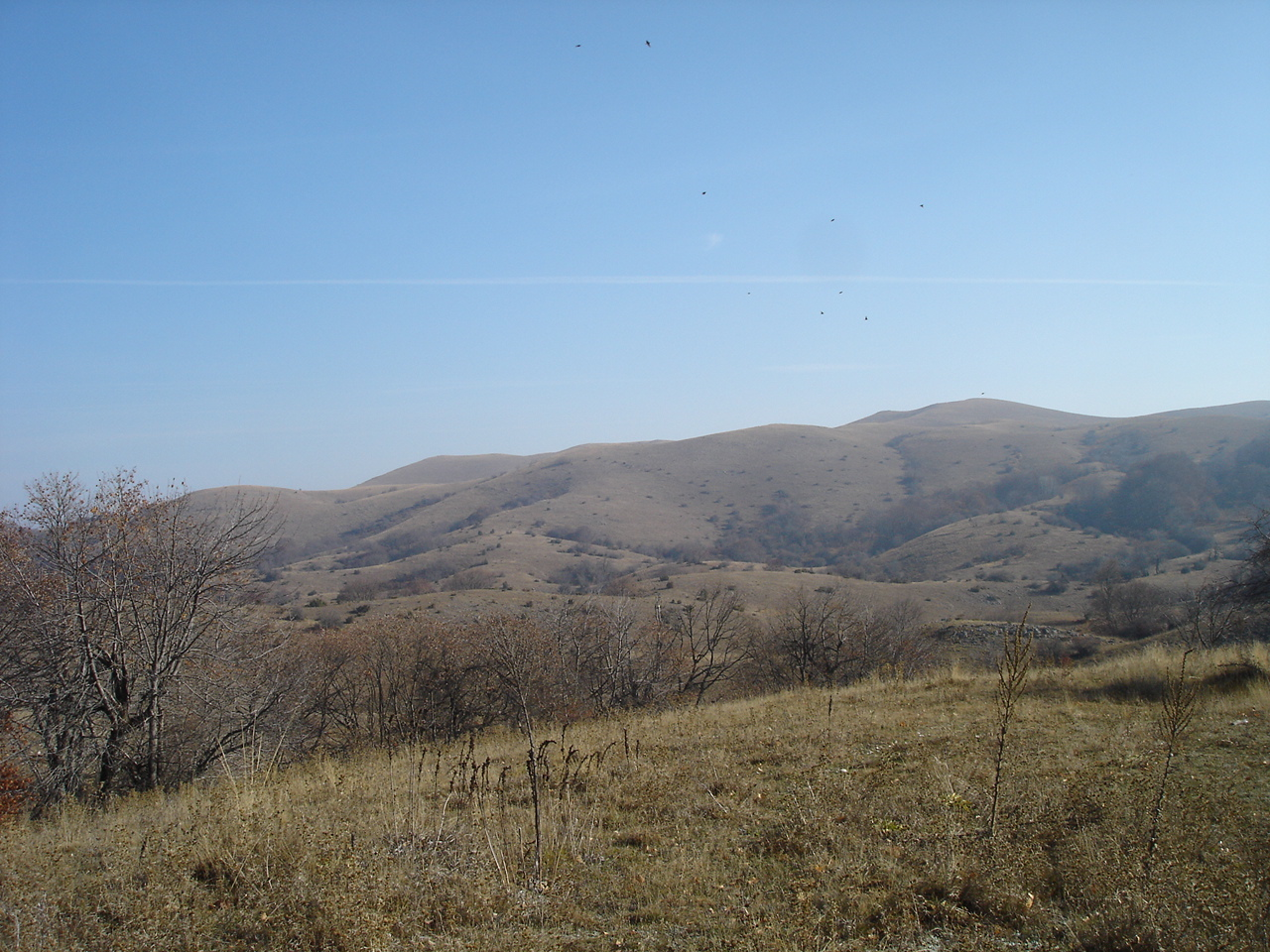 Bukovik mountain with peak Tepe in western Macedonia